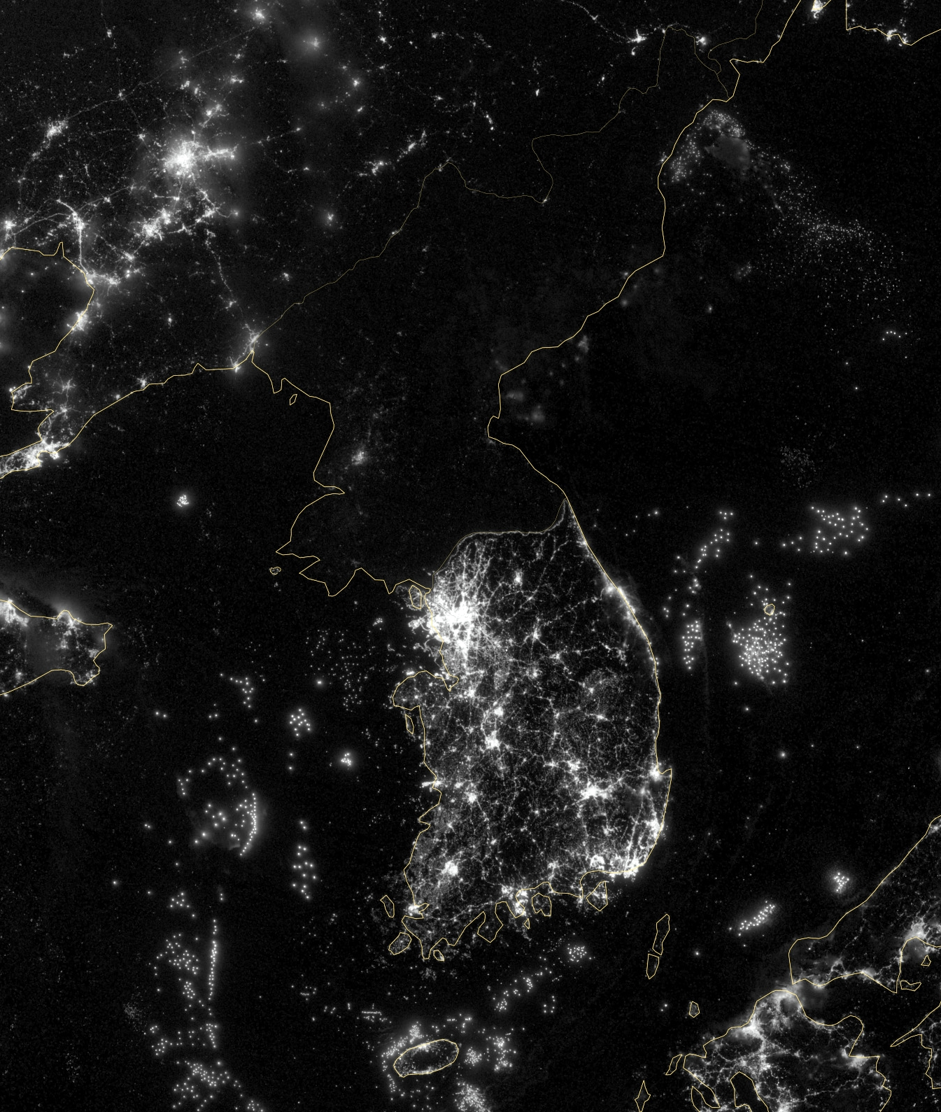 Korean peninsula at night